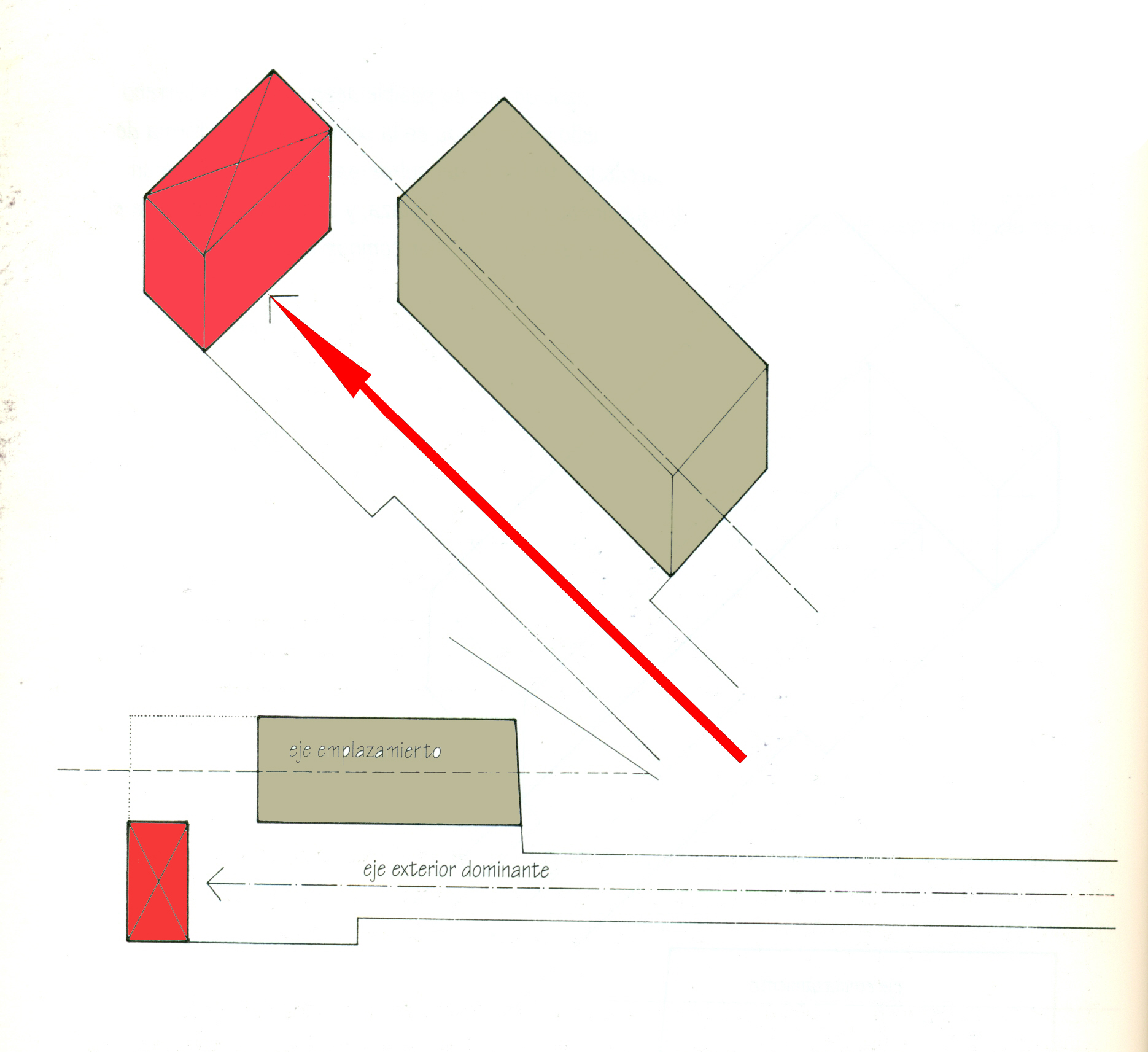 Separacion